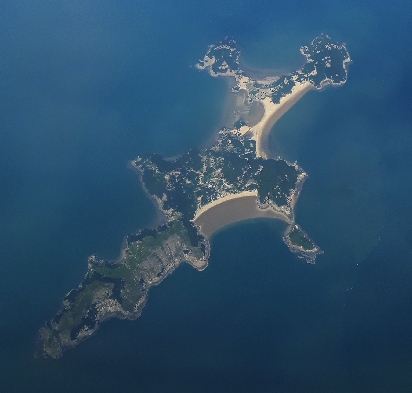 An aerial photograph of the South Korean island Gureopdo, taken in September 2019.